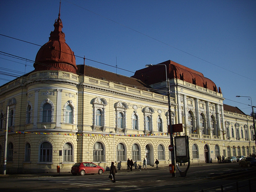 Medical School of Oradea (former Hall of Commerce)